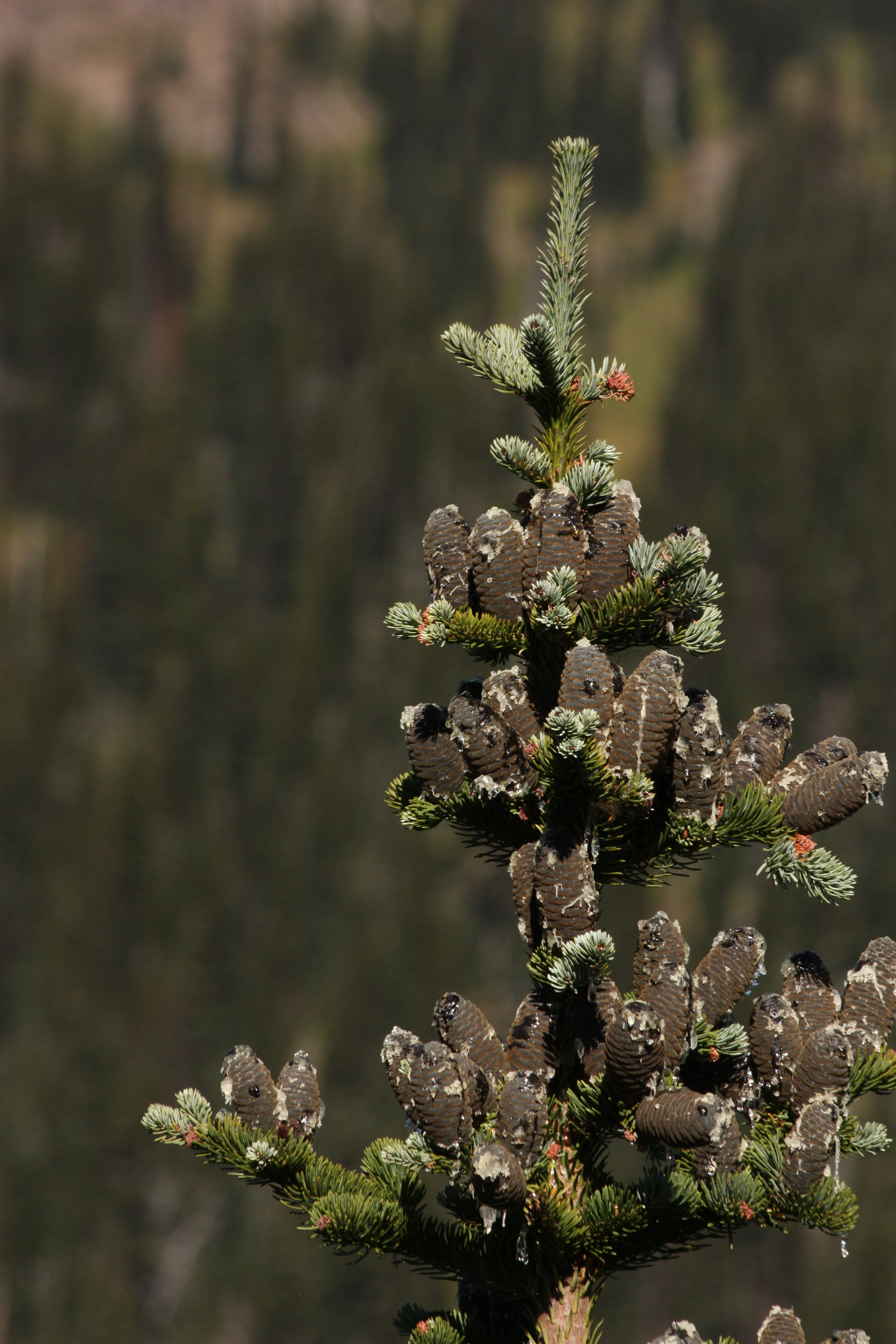 Subalpine Fir, Alpine Fir, Balsam or White Balsam Fir Viewpoint location: Dege Peak, Sourdough Ridge Trail, Mount Rainier National Park Viewpoint elevation: 1840 meter (6038 ft) Location source: Garmin GPSmap 60CSx Location Datum: WGS84